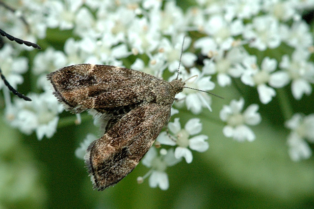 Picture taken in Commanster, Belgian High Ardennes . Species: Anthophila fabriciana